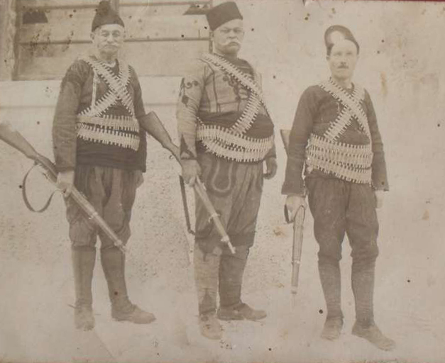 Cheta of Todor Hvoynev